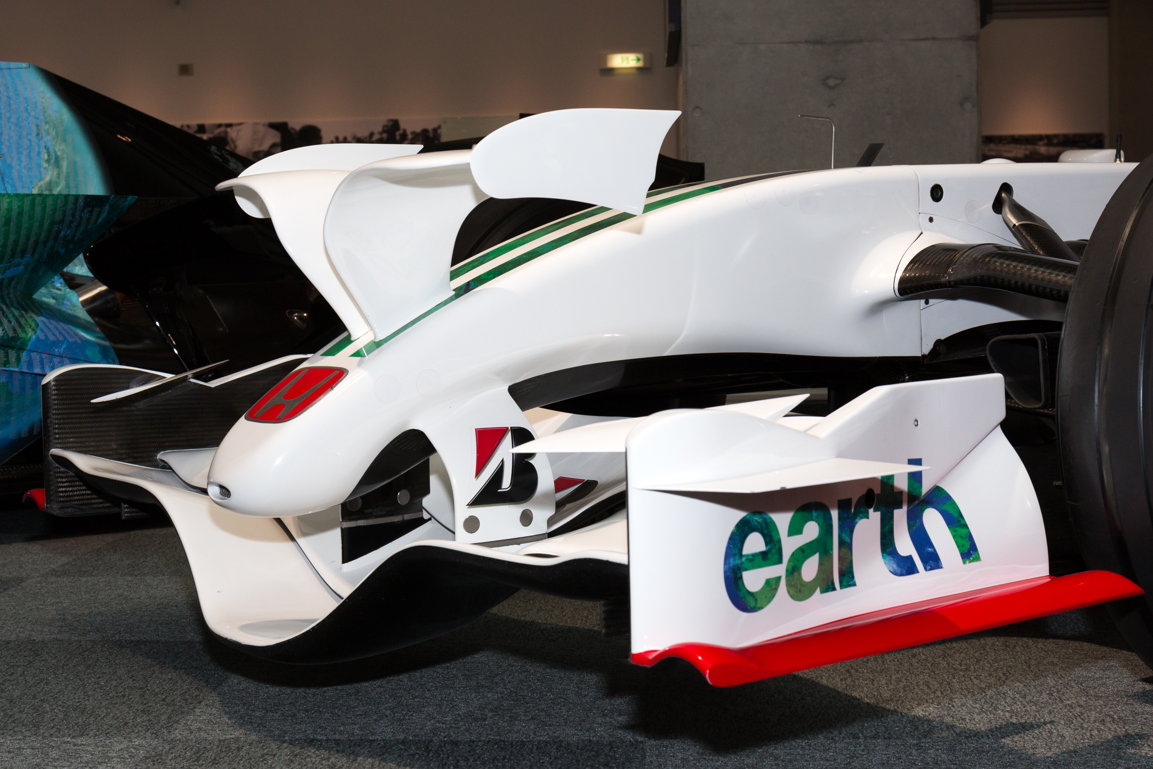 2008 Honda RA108